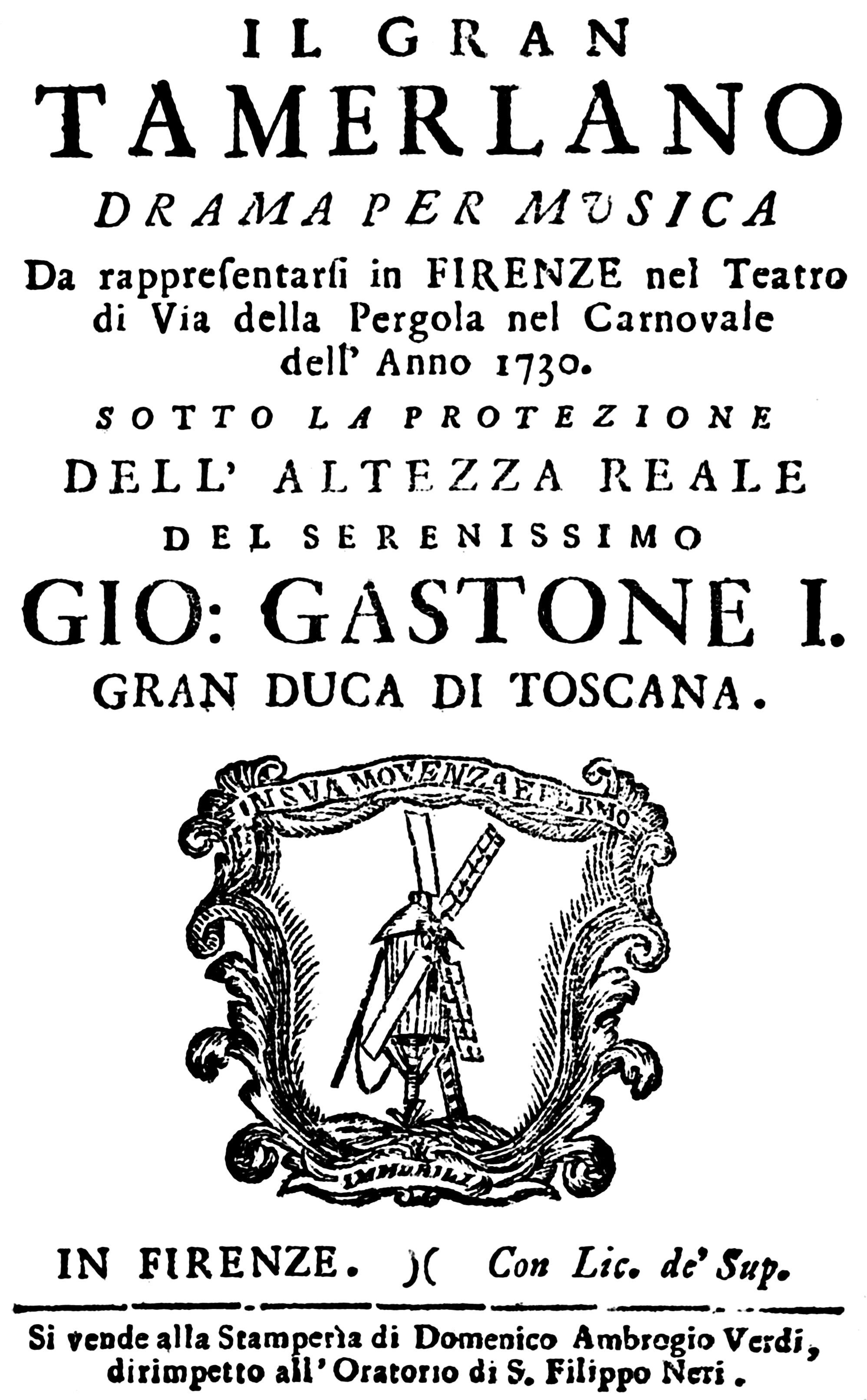 Giovanni Porta - Il gran Tamerlano - title page of the libretto - Florence 1730